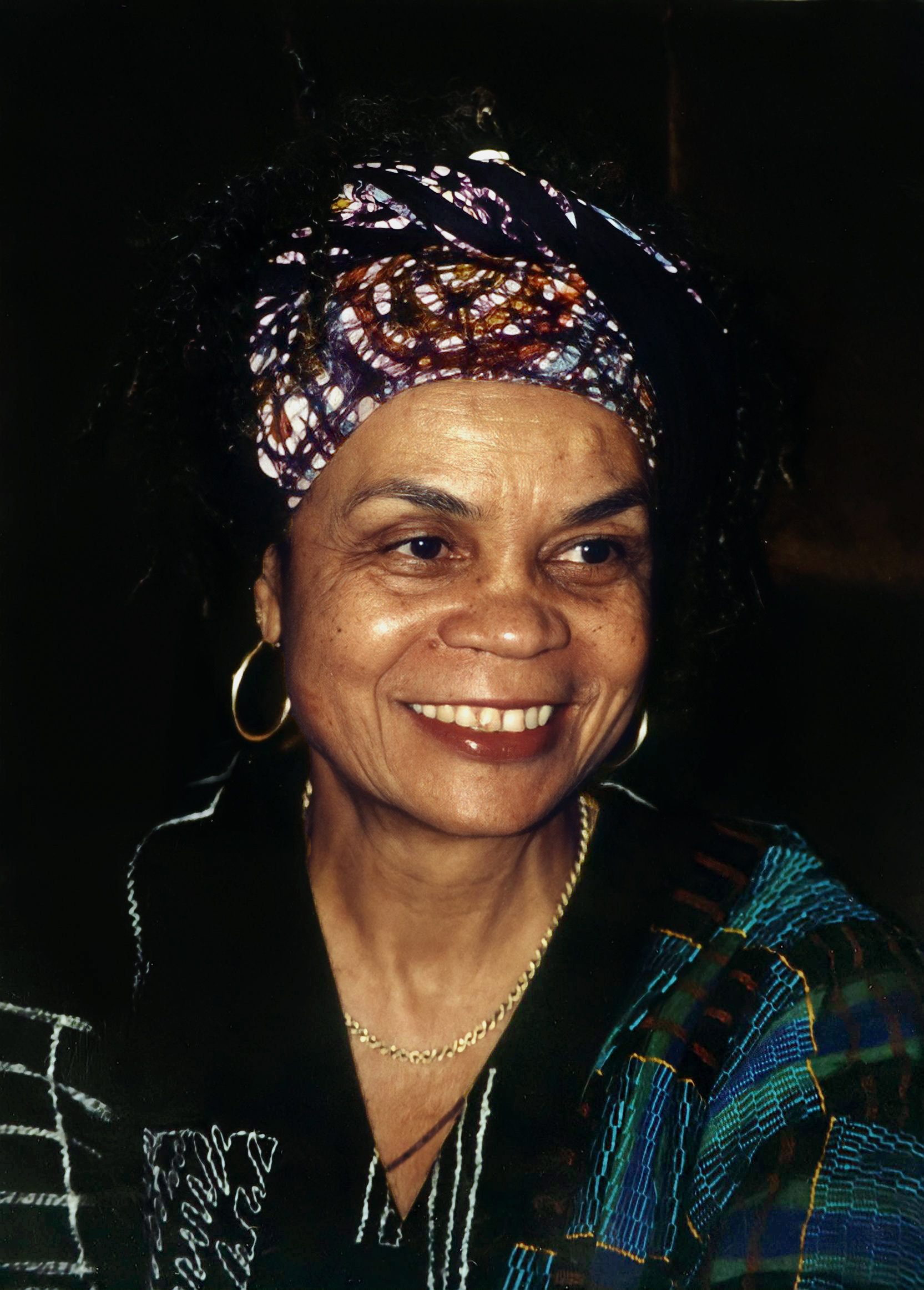 Sonia Sanchez New York 1998 © copyright John Mathew Smith 2001